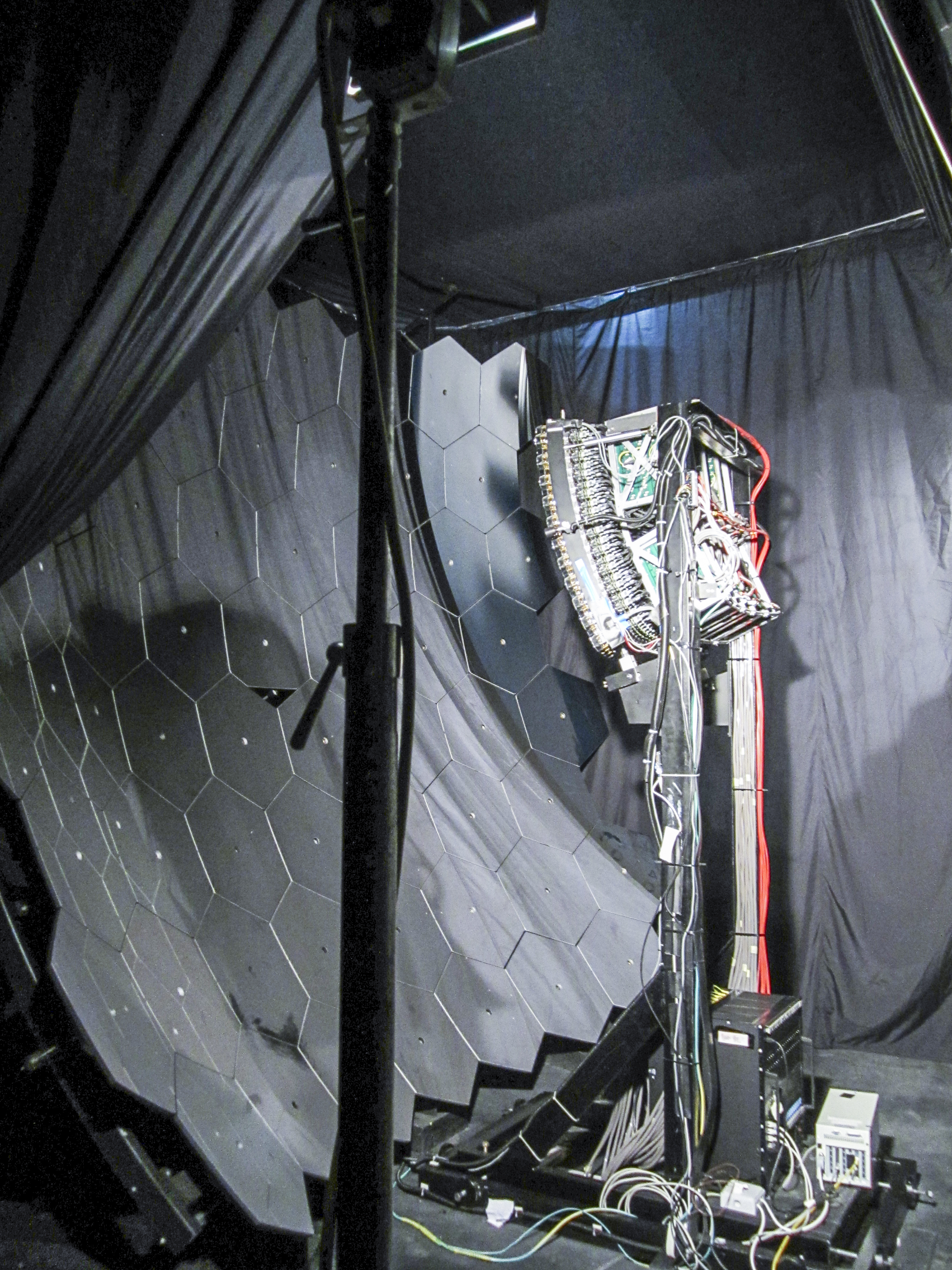 PMT matrix and mirror of the Coihueco fluorescence telescopes. Pierre Auger Observatory, Malargüe, Mendoza, Argentina.